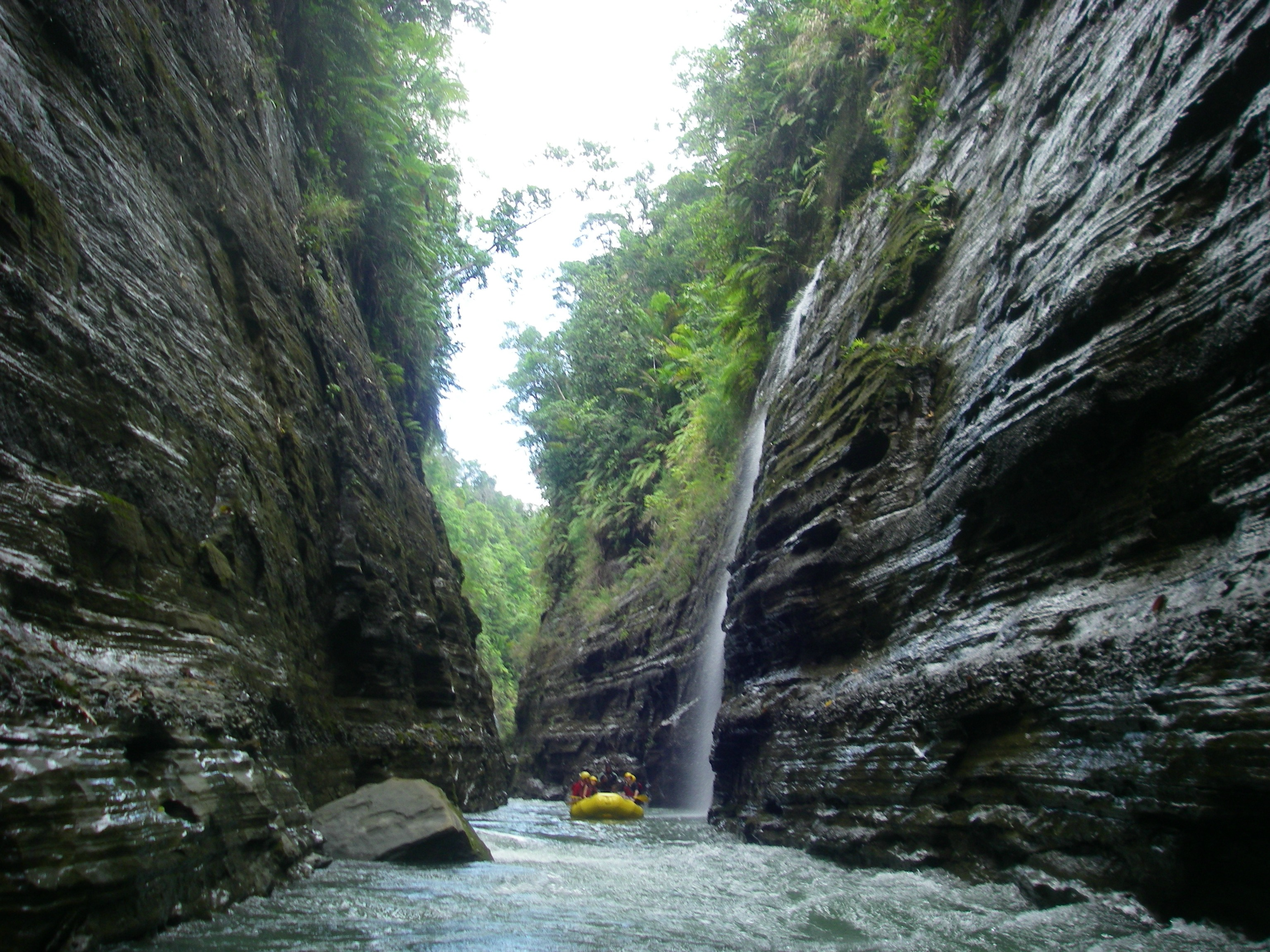 This photo was taken in February 2013.